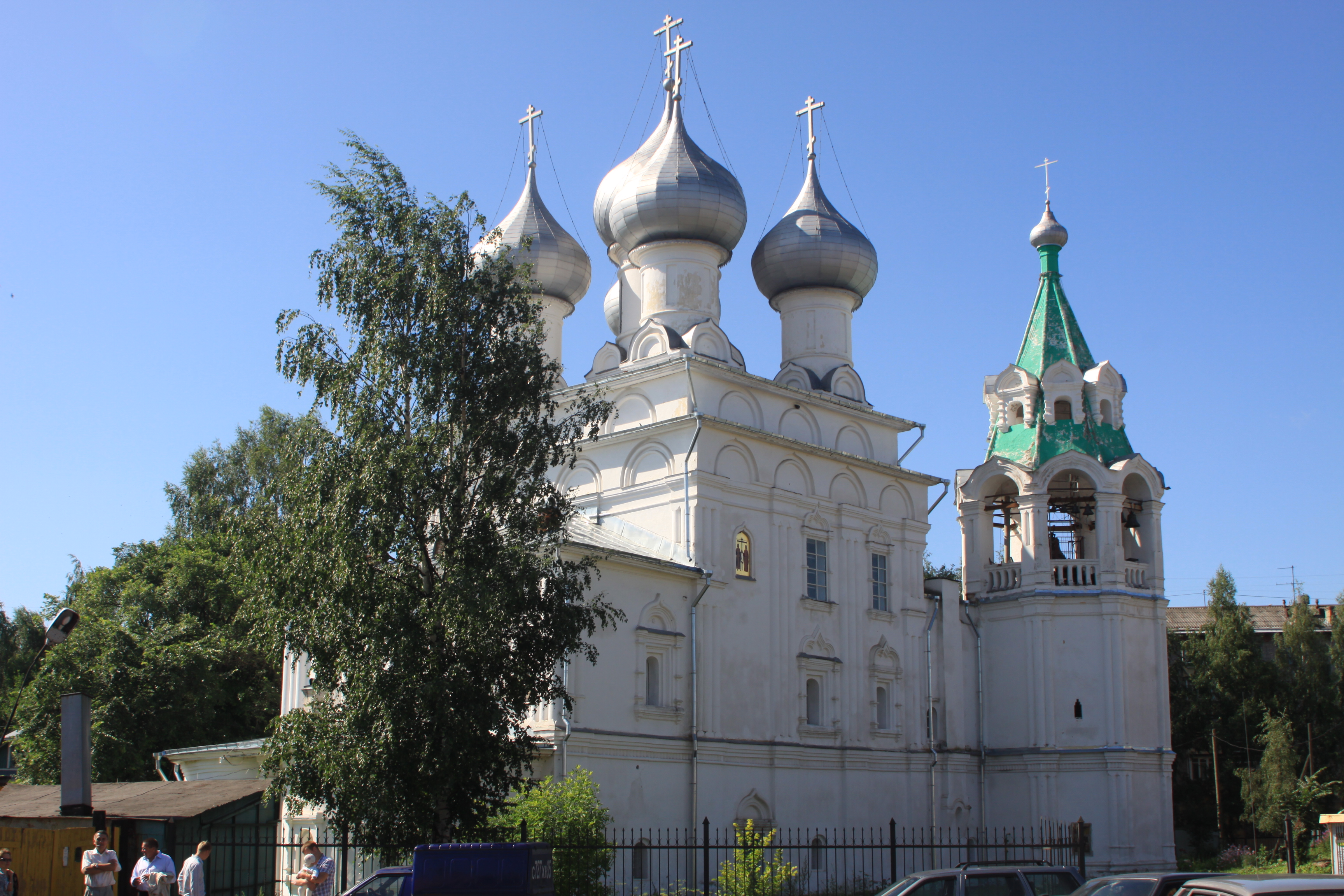 Constantine_and_Helena_Church in Vologda,_north view